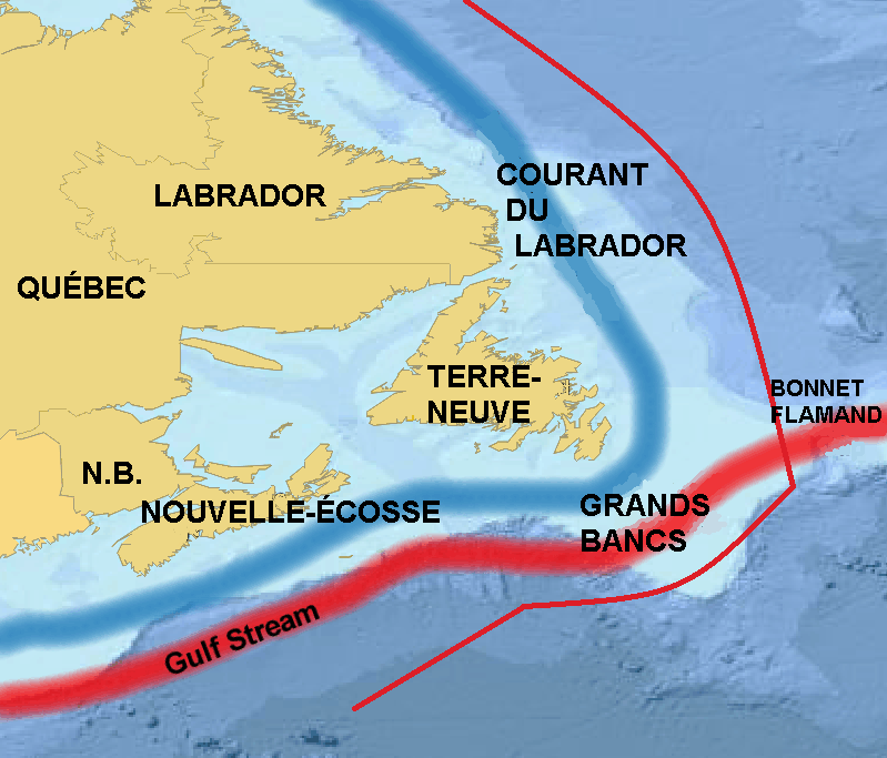 Maps of the Canadian Atantic Provinces showing the Grand Banks, the Flemish Cap, the Labador and Gulf Stream currents in French. This is a translation of file:Grand_Banks.png using MSPaint. The thin red line show the approximative limit of the Economic Exclusive Zone of Canada